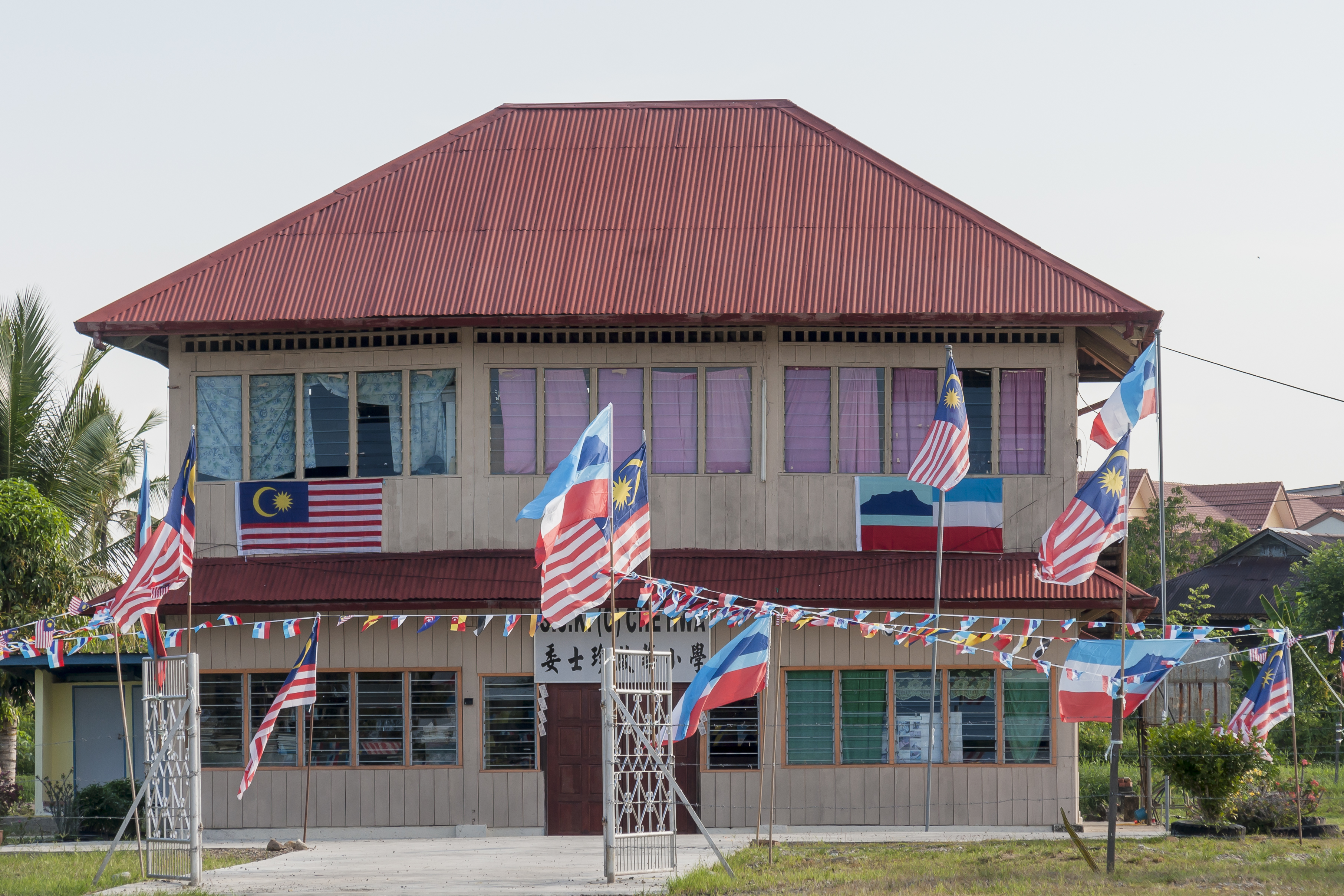 Weston, Sabah: Old Chinese School of 1932, the Sekolah Cina Che Hwa, one of the few colonial traces of Weston (Sabah)